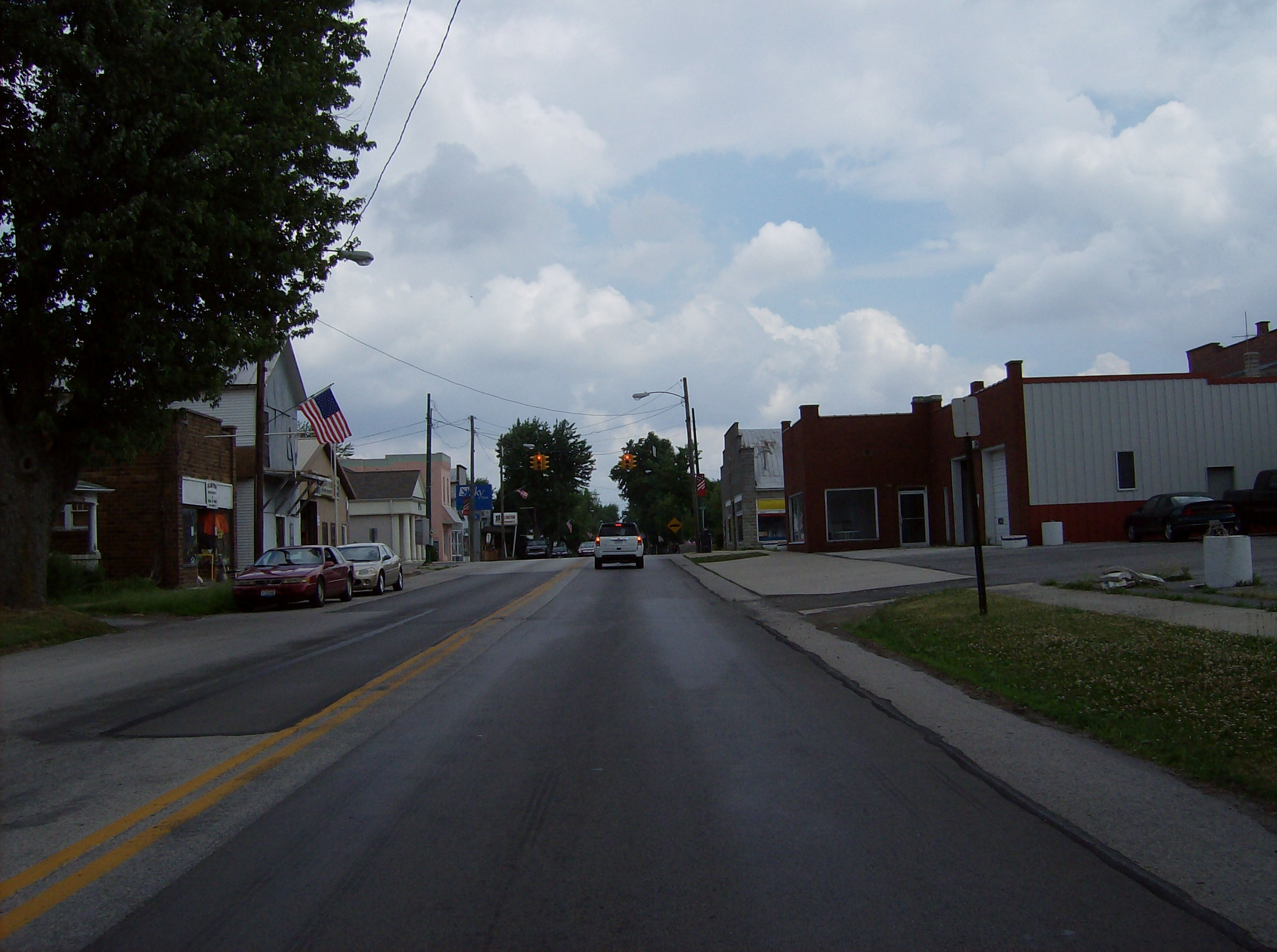 Travelling northward along Main Street (U.S. Route 68) in downtown Arlington, Ohio, United States.